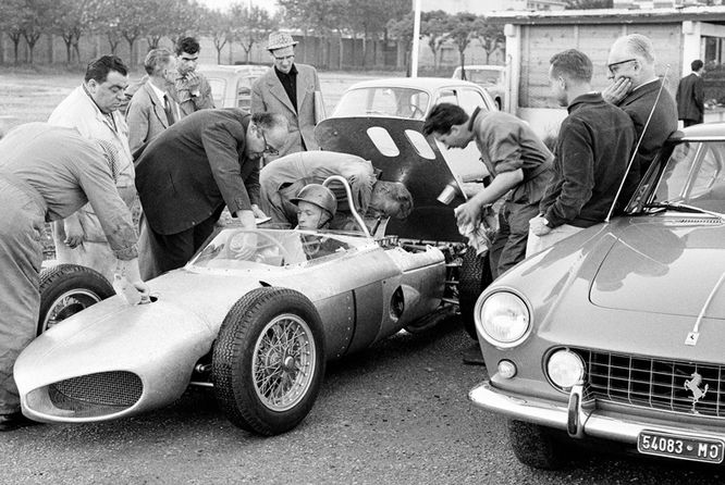 Early track tests of Ferrari 156 F1 at Modena Aerautodromo in April 1961.(Klemantaski collection) Seated in this looks like Richie Ginther. Leaning to the other car is Enzo Ferrari and Phil Bill. On far left (leaning over the front of the car) is Luigi Bazzi ("senior technician"). Man in dark suit fiddling with the steering wheel is Carlo Chiti. Behind him in white overall is Medardo Fantuzzi. Far in the back with a hat is Romolo Tavoni. (Source as to who is how: [1]) The other car is the 1960 Ferrari 250 GT 2+2 Coupe s/n 1287GT "MO 54083".